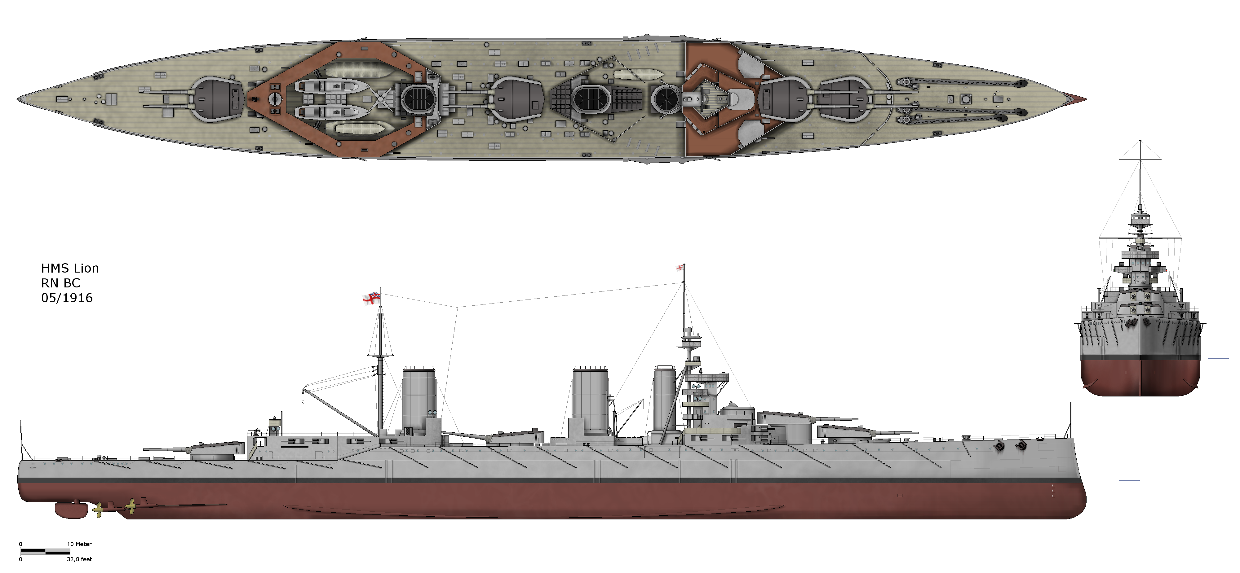 Drawing of the HMS Lion in her configuration in May 1916. Additional info obtained from: John Roberts: Battlecruisers., Chatham Publishing, 1997 Construction drawings Various photographs